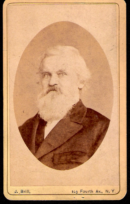 Johann Friedrich Leonhard Tafel, picture shot before 1880